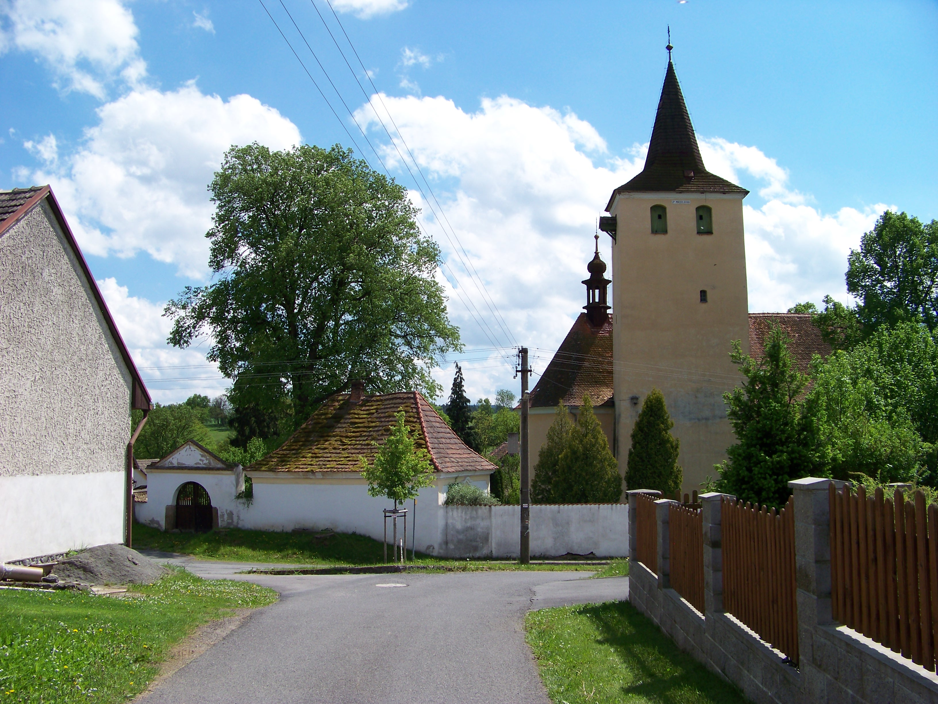 Jesenice, Příbram District, Central Bohemian Region, the Czech Republic. Church of the Holy Trinity.